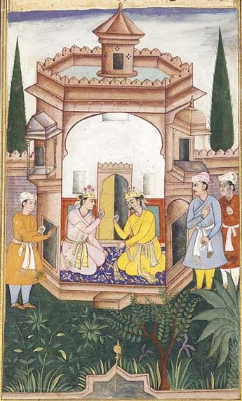 YUDHISHTHIRA WITH BHISMA IN A PAVILION. Ascribed to Fattu, Mughal India, 1598. From a manuscript of the Razmnama, gouache heightened with gold on paper, the two noblemen conversing in a pavilion with attendants waiting outside, four lines of black naskh above, slight oxidation, laid down on another manuscript leaf, inscribed below Fattu, verso with text page. Folio 11 5/8 x 6¾in. (29.6 x 17.2cm.); miniature 7 1/8 x 4¼in. (18.1 x 10.8cm.)